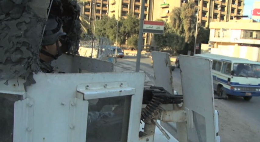 Baghdad, Iraq during the post withdrawal insurgency. Iraqi soldier in Baghdad, late December 2011.